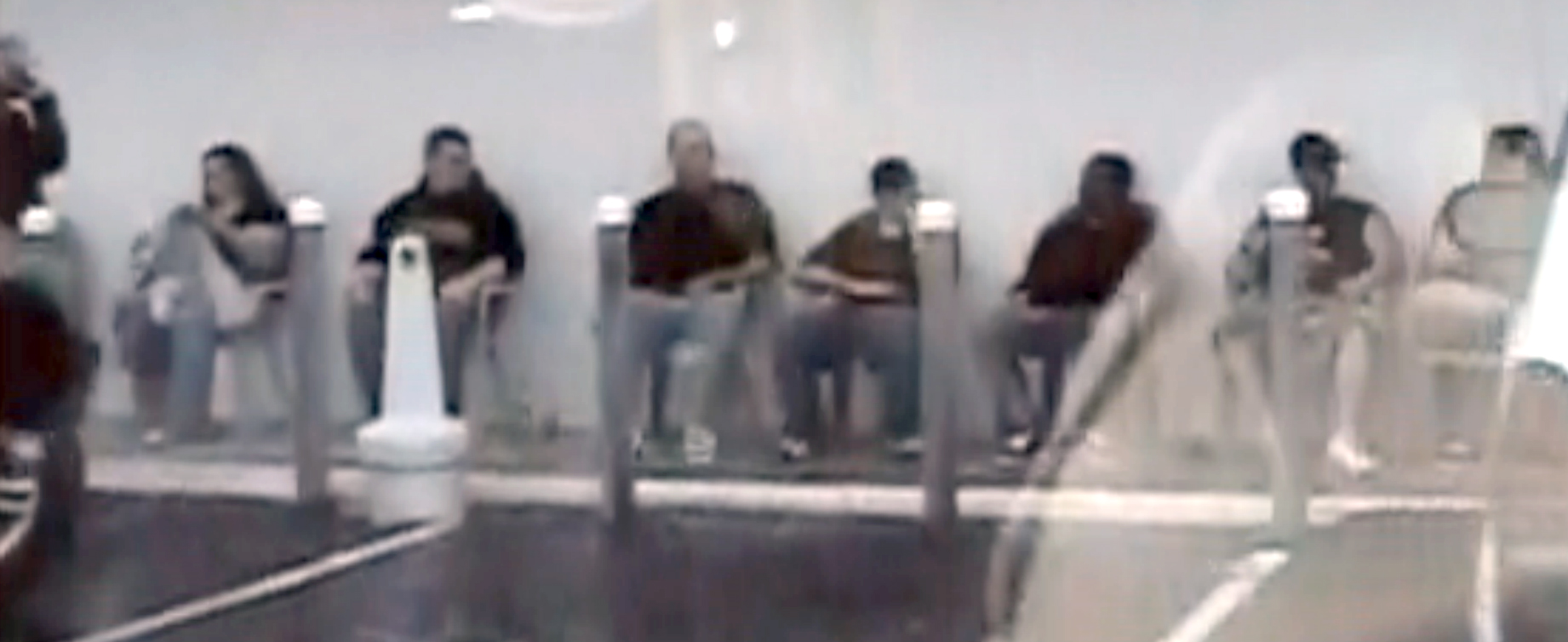 Customers of a Florida Pill Mill run by Jeff and Chris George wait in chairs on the sidewalk. Surveillance footage shot by the Palm Beach Sheriff's Office.